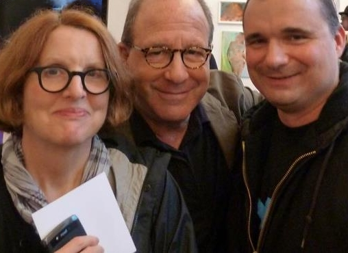 (Left to right: ) Art critics Roberta Smith of the New York Times and Jerry Saltz of New York Magazine pose with artist Terry Ward (AKA GrumpyVisualArtist). Photo at a 2012 group show at an art gallery opening in New York City in the gallery district of Chelsea. Since NYC gallery openings are widely understood to be public events with news media likely to attend, visitors do not have an expectation of privacy; no "model release" required. Artwork fanitly visible in background has been blurred to avoid copyright concerns.